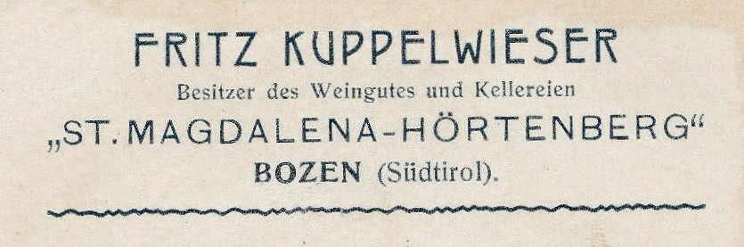 Advertisement from 1904 for a wineseller in Bozen-South Tyrol